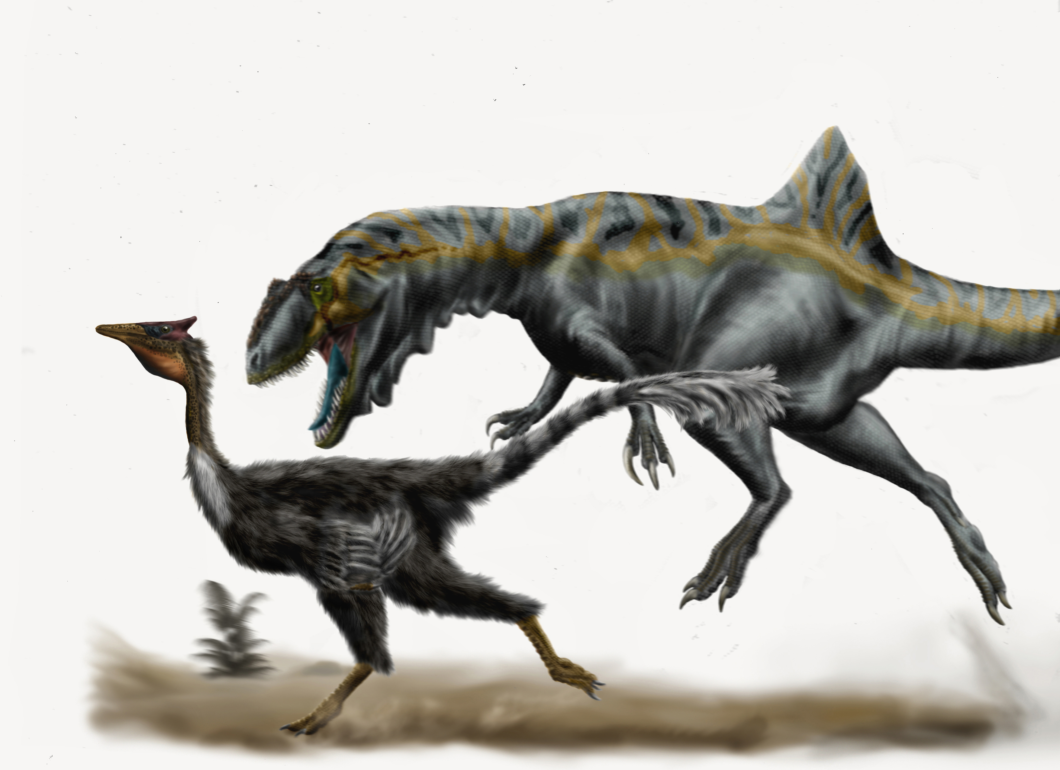 The carcharodontosaurid Concavenator corovatus ambushing the ornithomimosaurian Pelecanimimus polydon in the Early Cretaceous of Las Hoyas, Spain.